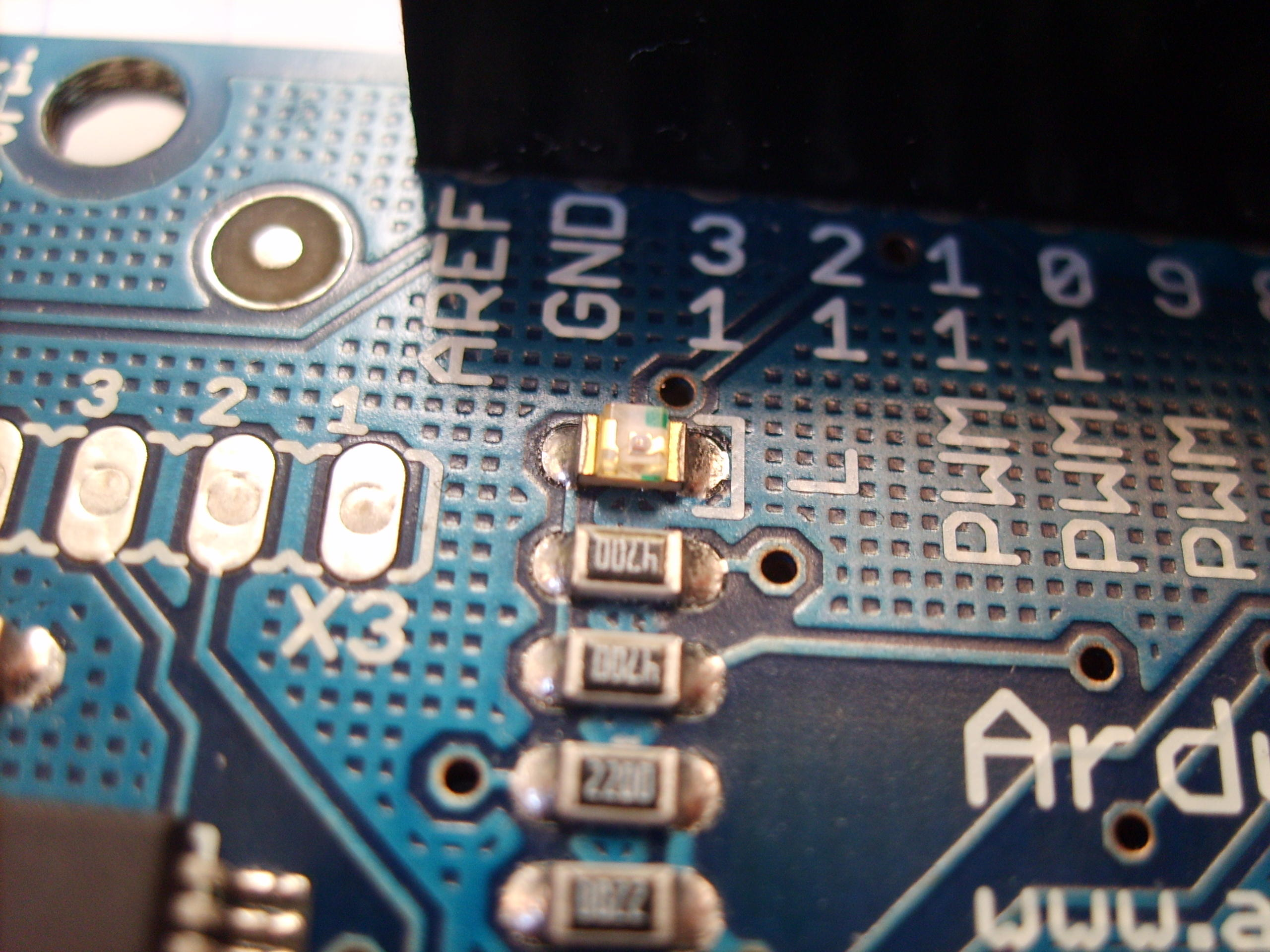 A yellow, not glowing SMD (surface-mount device) LED (light-emitting diode) on the Arduino NG board from arduino.cc. The LED is marked with the L.